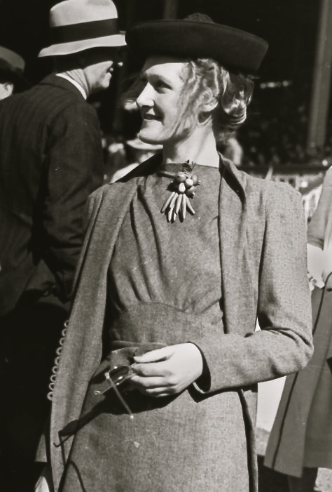 Woman attending the Ascot Races in Brisbane, 1939. Woman dressed in a two piece suit enjoying herself at the races.